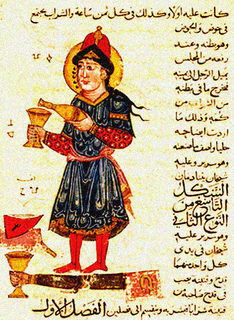 Machine Pouring Wine. Syria or Egypt 1315